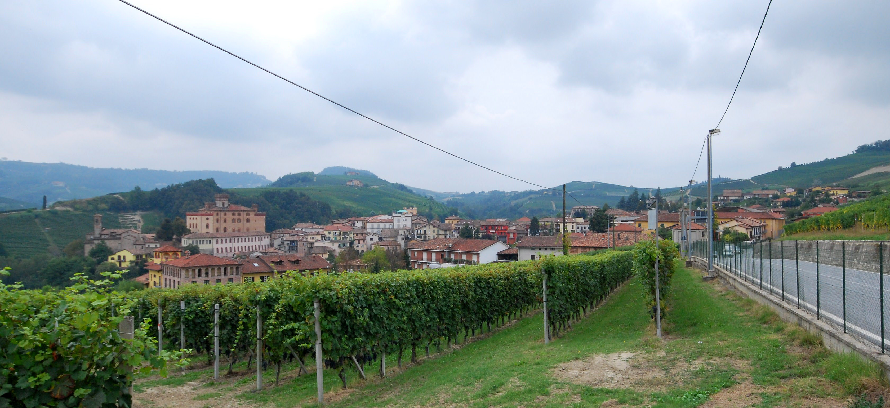 Barolo village seen from north, foot path from La Morra